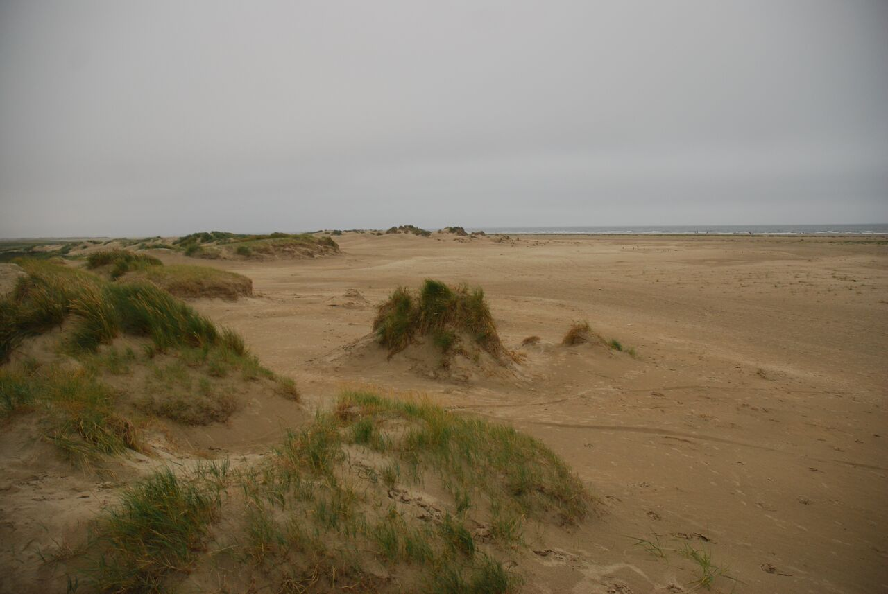 A picture taken on the Lakolk beach of the danish island of Rømø.